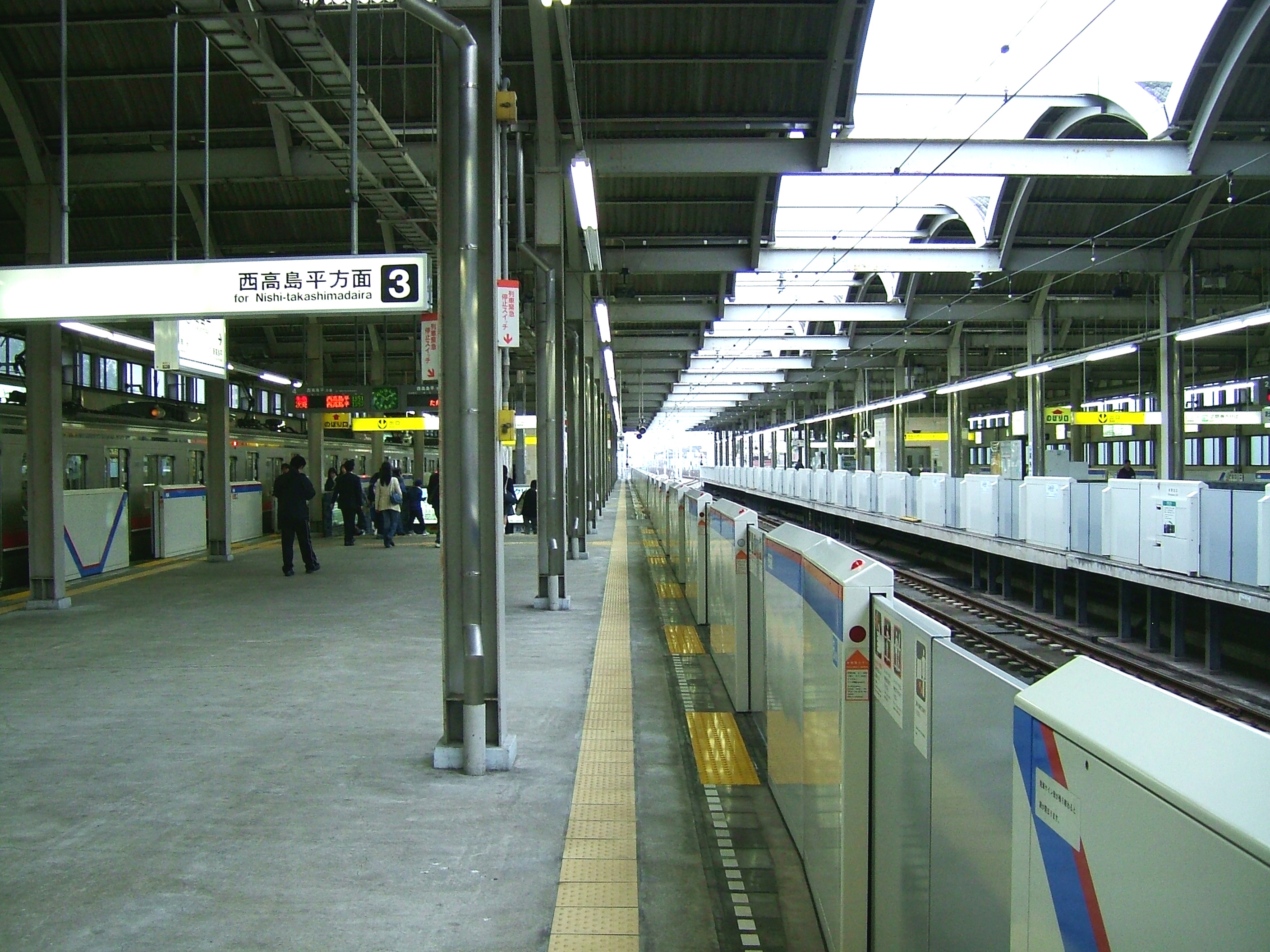 The Nishi-Takashimadaira-bound(no.3 and no.4) platform at Takashimadaira Station on the Toei Mita Line in Itabashi city, Tokyo, Japan